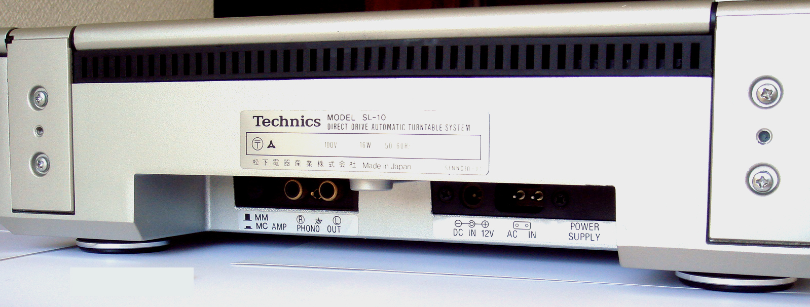 Picture of Technics SL-10, ser.DA26-04M182